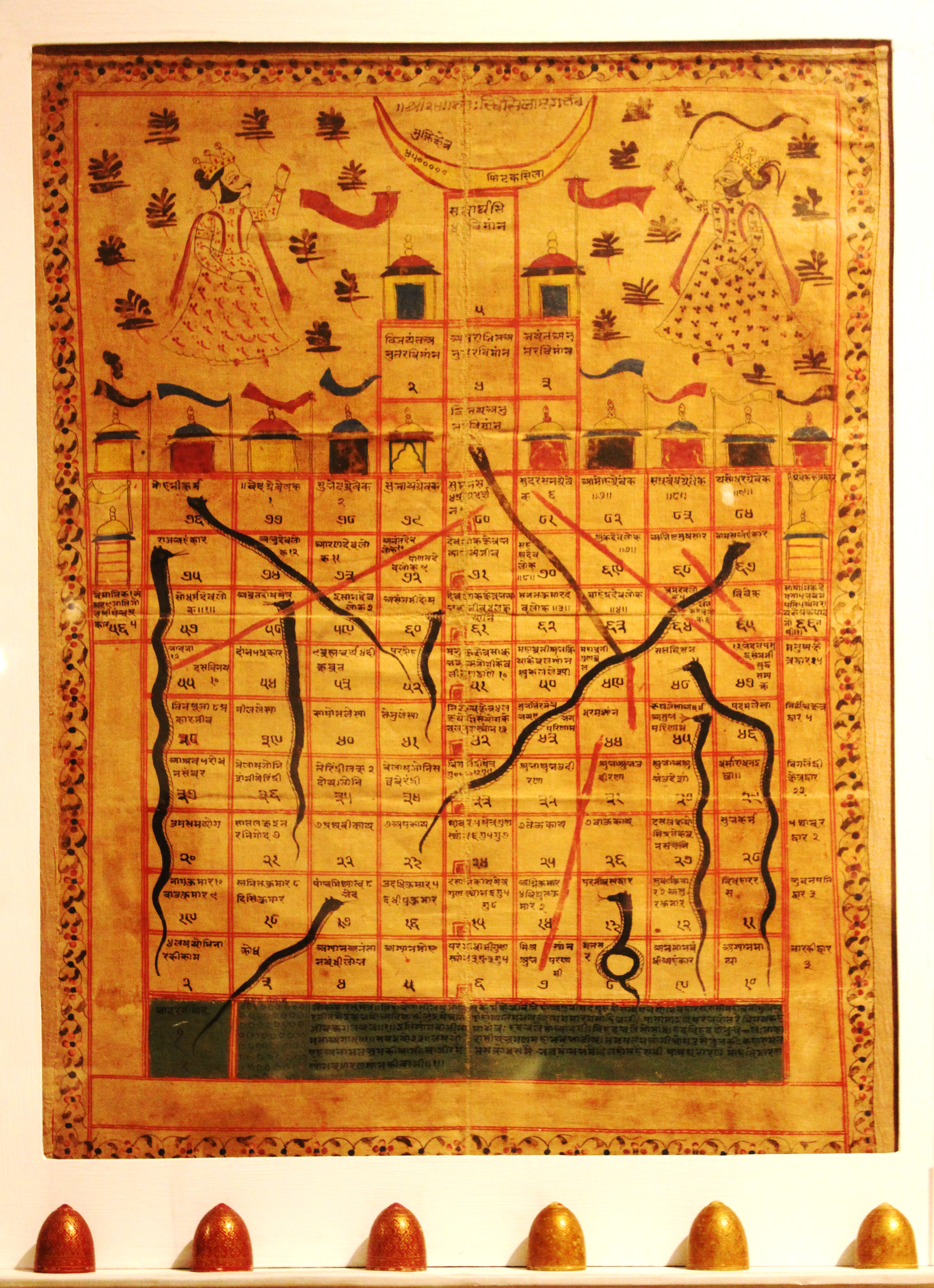 Gyan Chaupar, Late 18th Century Jain game board on cloth in the decorative arts gallery of the National Museum, India. Acc. No. 85.312